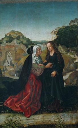 A Visitação é um painel do Políptico da Capela-mor da Sé de Viseu, que foi criado como os outros no período entre 1501 e 1506. Tendo de altura 131,5 cm e de largura 81,2 cm, a obra representa o episódio bíblico da Visitação.